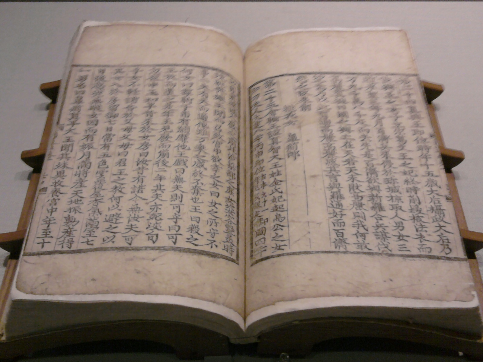 Memorabilia of the Three Kingdoms displayed in Seoul National University Kyujanggak Institute for Koreanology Studies